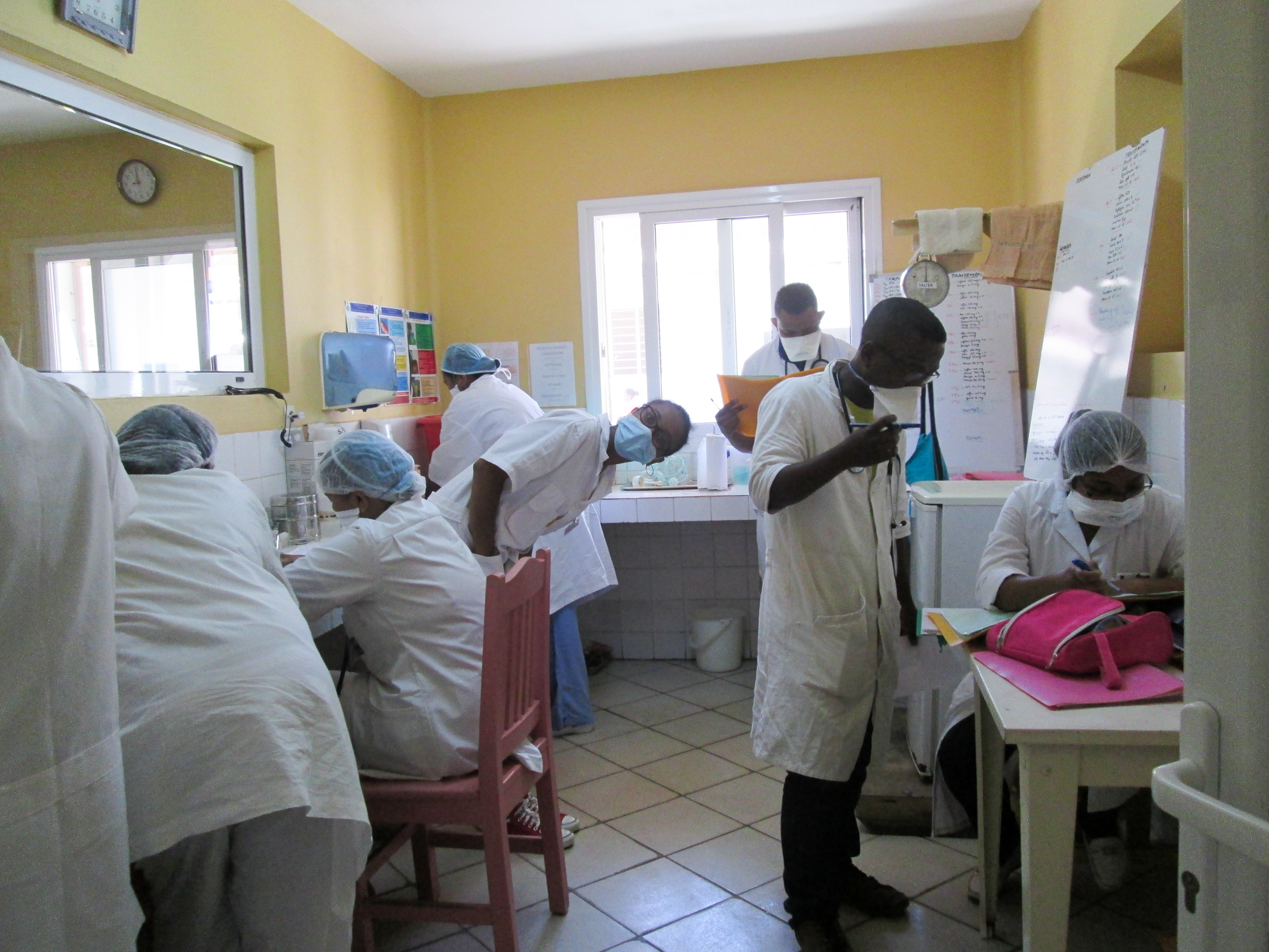 Medical team made up of doctors, nurses and interns working together during the plague period in Madagascar This is an image of "African people at work" from Madagascar